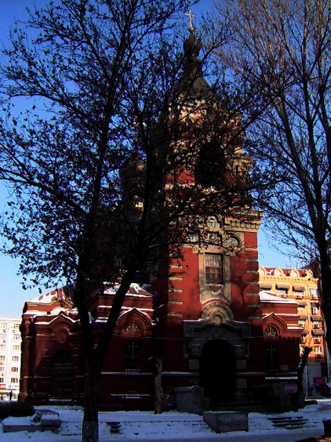 the Sikejie Church of Harbin